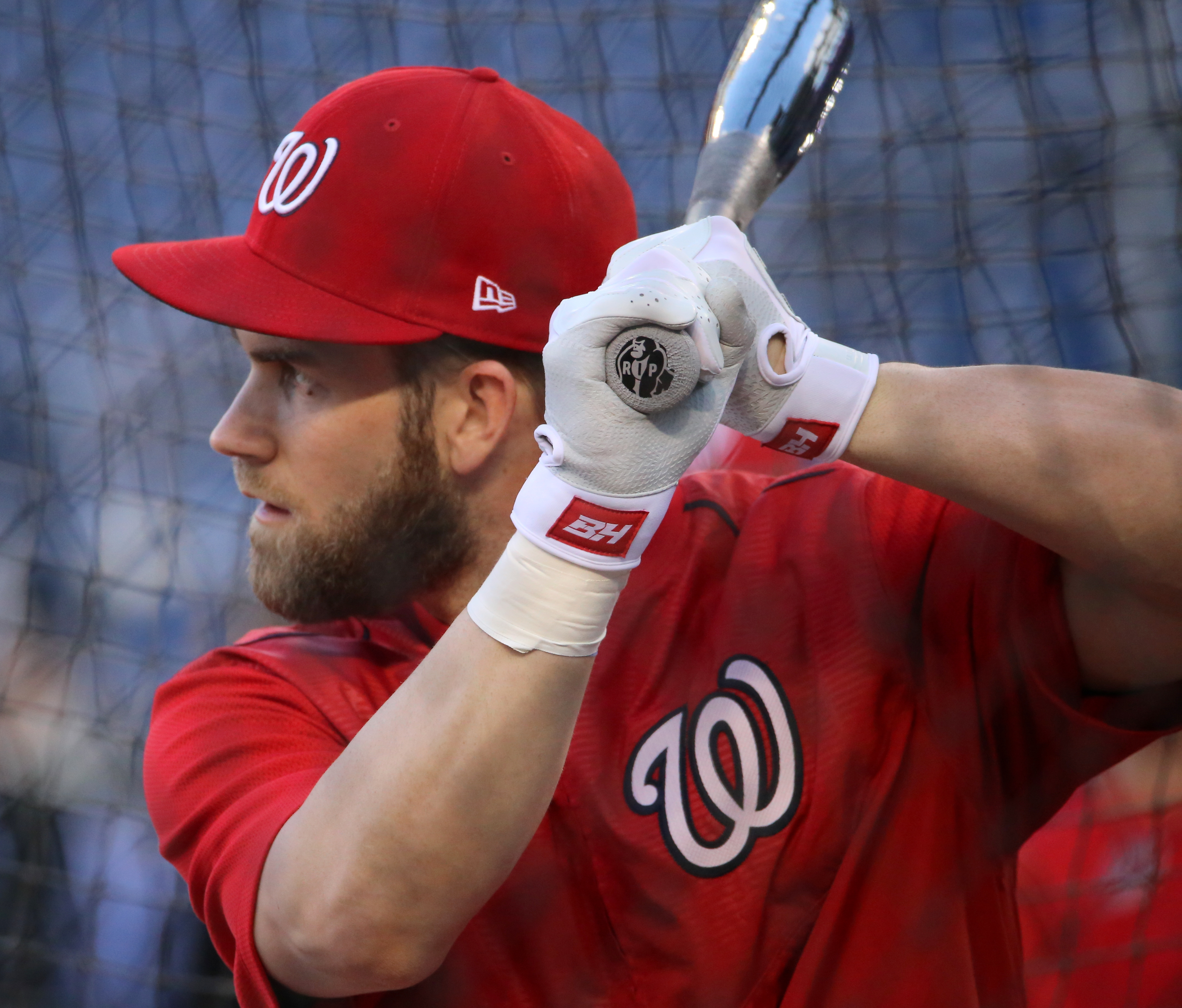 Nationals outfielder Bryce Harper has a simple message before NLDS Game 5 - #RIPHarambe.